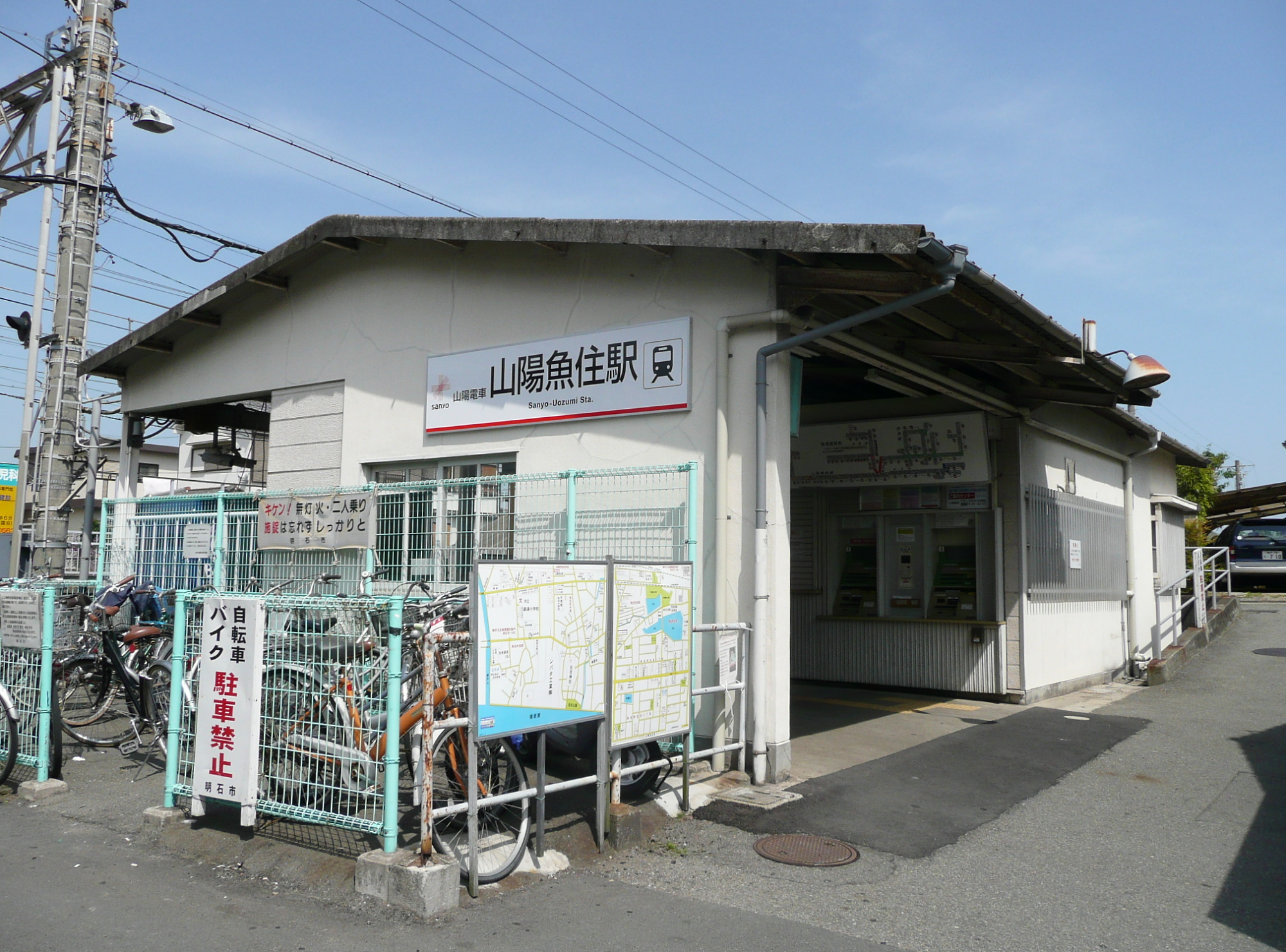 Sanyo Electric Railway,Sanyo-Uozumi Station. / 山陽電気鉄道山陽魚住駅